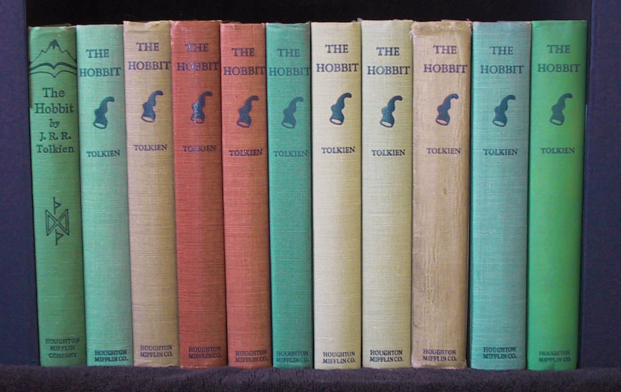 A line-up of the American second edition printings of The Hobbit.